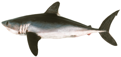 Porbeagle (Lamna nasus)